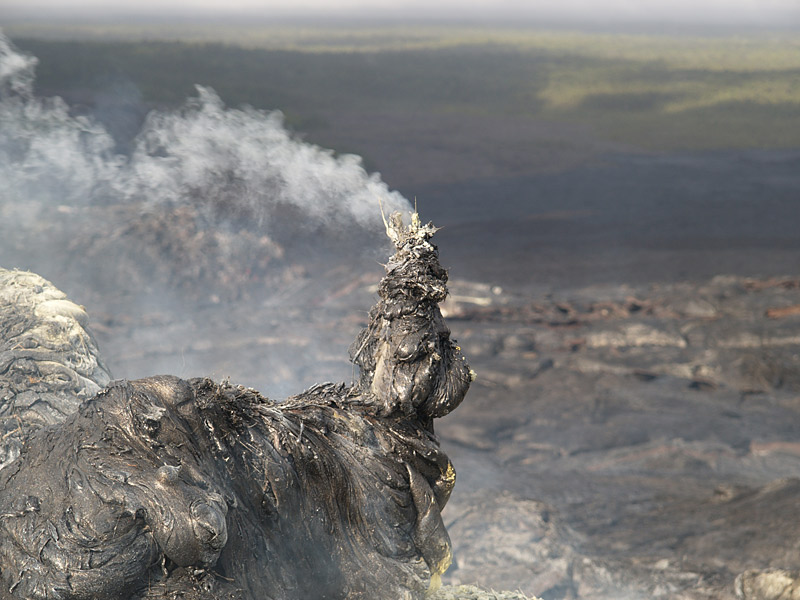 A 40 cm high hornito releases noxious fumes at the Puʻu ʻŌʻō.